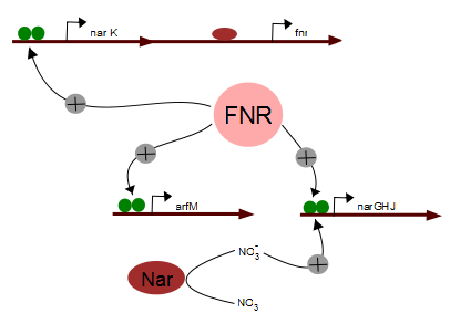 image formed using inscape